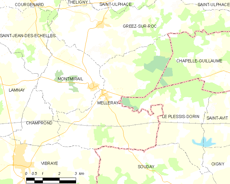 Map of French municipality